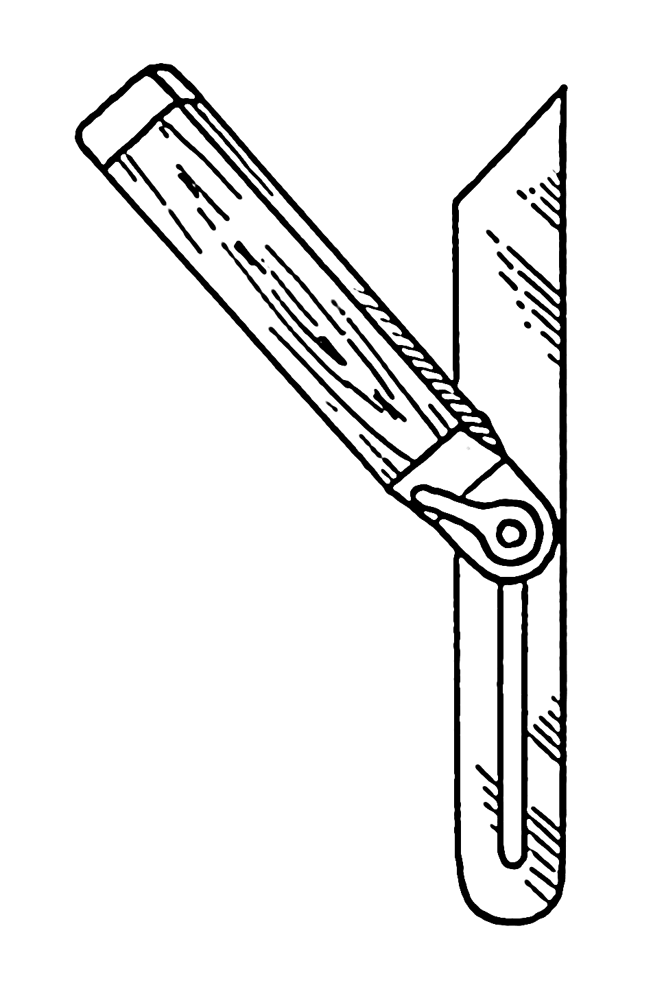 Line art drawing of a sliding T bevel.